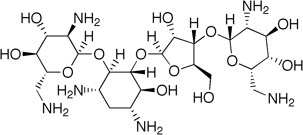 chemical structure of framycetin